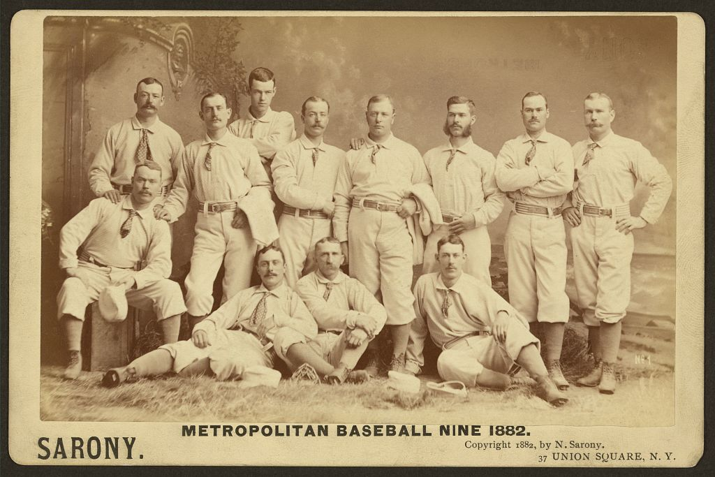 Sarony, Napoleon, 1821-1896, photographer. Metropolitan baseball nine 1882 c1882. 1 photographic print on cabinet card mount. Notes: Photograph shows the New York Metropolitans baseball team in 1882 posed for a studio portrait, wearing white uniforms with neckties. Title from item. Copyright, 1882, by N. Sarony, 37 Union Square, N.Y. Published in: Baseball Americana : treasures from the Library of Congress / Harry Katz, et al. New York : Smithsonian Books, 2009. Subjects: New York Metropolitans (Baseball team)--People--1880-1890. Baseball players--New York (State)--New York--1880-1890. Format: Portrait photographs--1880-1890. Group portraits--1880-1890. Cabinet photographs--1880-1890. Photographic prints--1880-1890. Repository: Library of Congress, Prints and Photographs Division, Washington, D.C. 20540 USA, Persistent URL: Call Number: LOT 13829B, no. 17 Top row, left to right: Jack Lynch, Charlie Reipschlager, Tip O'Neill, Eddie Kennedy, John Clapp, John Doyle, Frank Hankinson, Steve Brady Bottom row, left to right: Tom Mansell, Terry Larkin, Candy Nelson, Long John Reilly